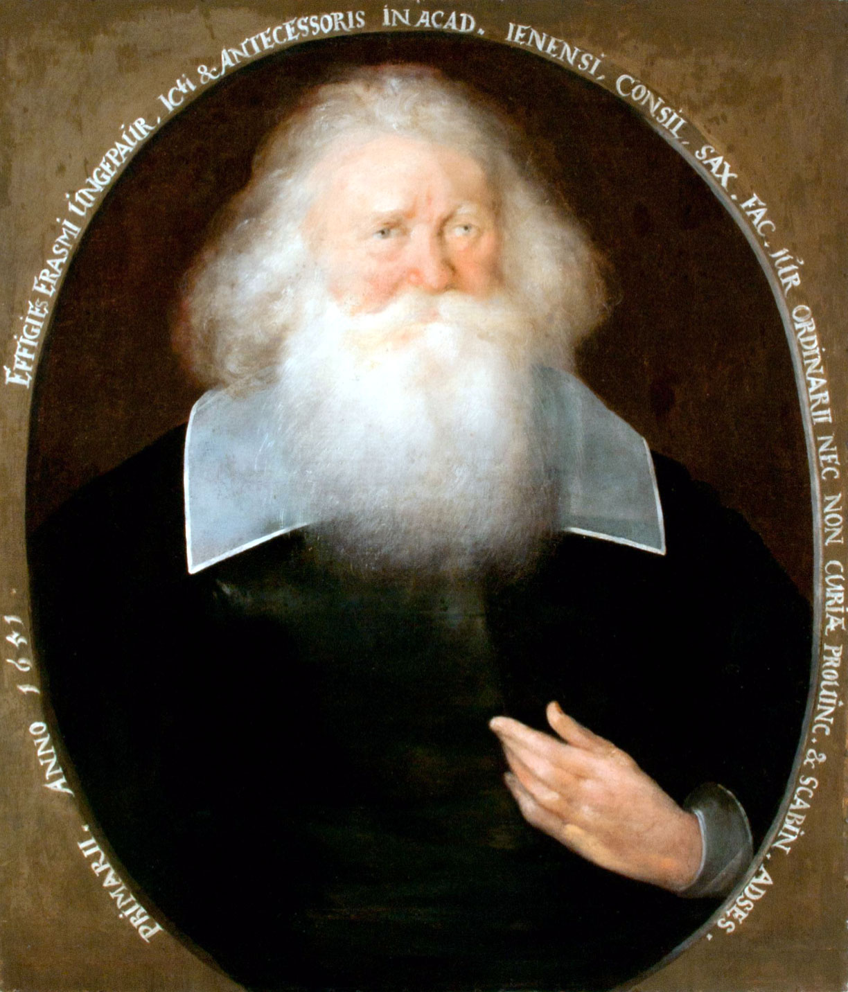 Erasmus Ungebaur also: Ungebauer, Ungebaur, Ungepauer Ungepaur; (1582-1659) german Jurist